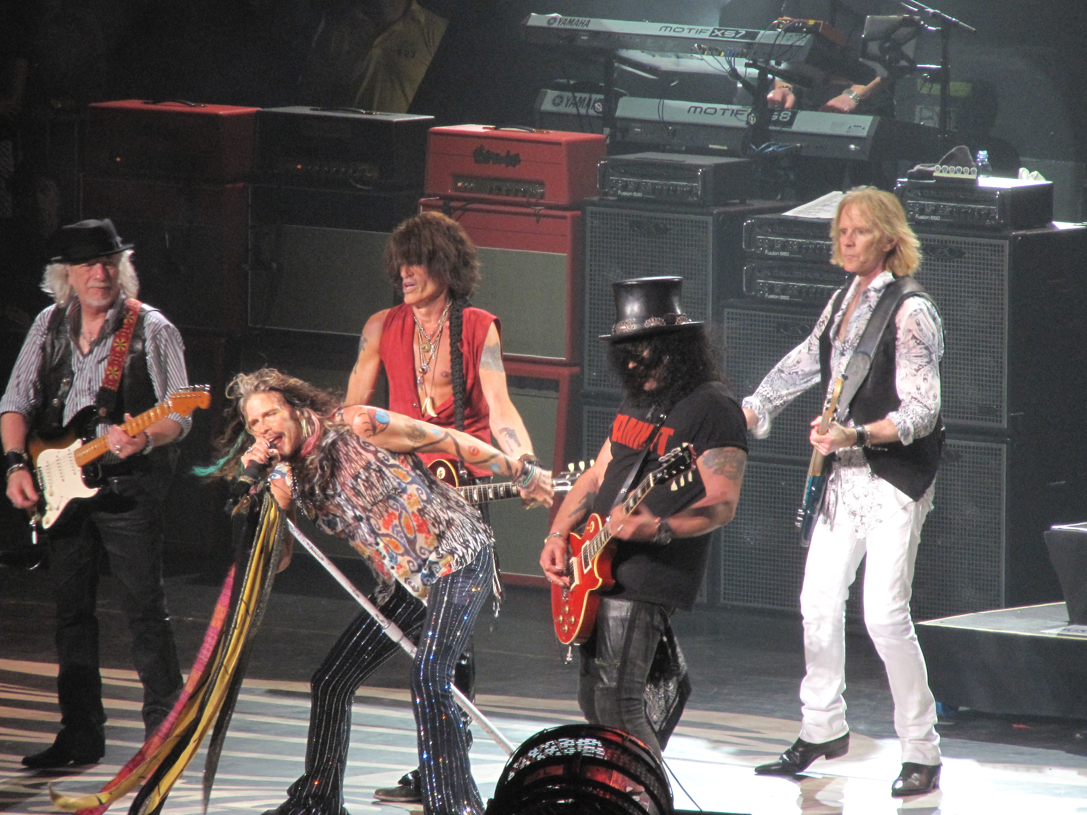 Aerosmith performing with Slash in July 2014 in Mansfield, MA.